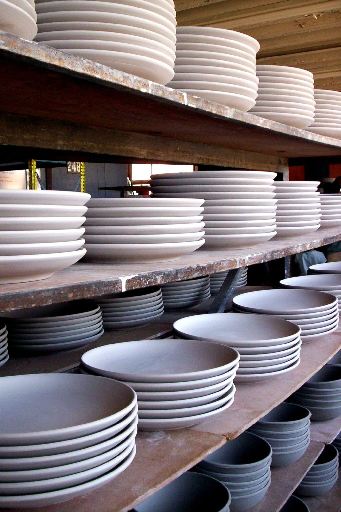 A set of plates ready to be glazed at a ceramics shop.